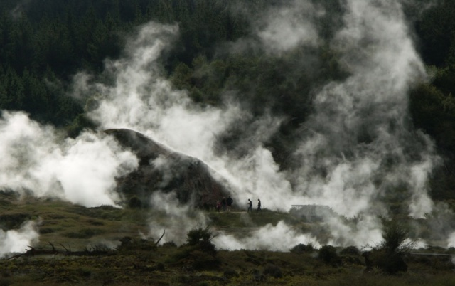 Craters Of The Moon NZ Scenic Reserve - photo taken and uploaded by Paul Moss, Photographer, Artist, Paul Moss Photographer Artist NZ